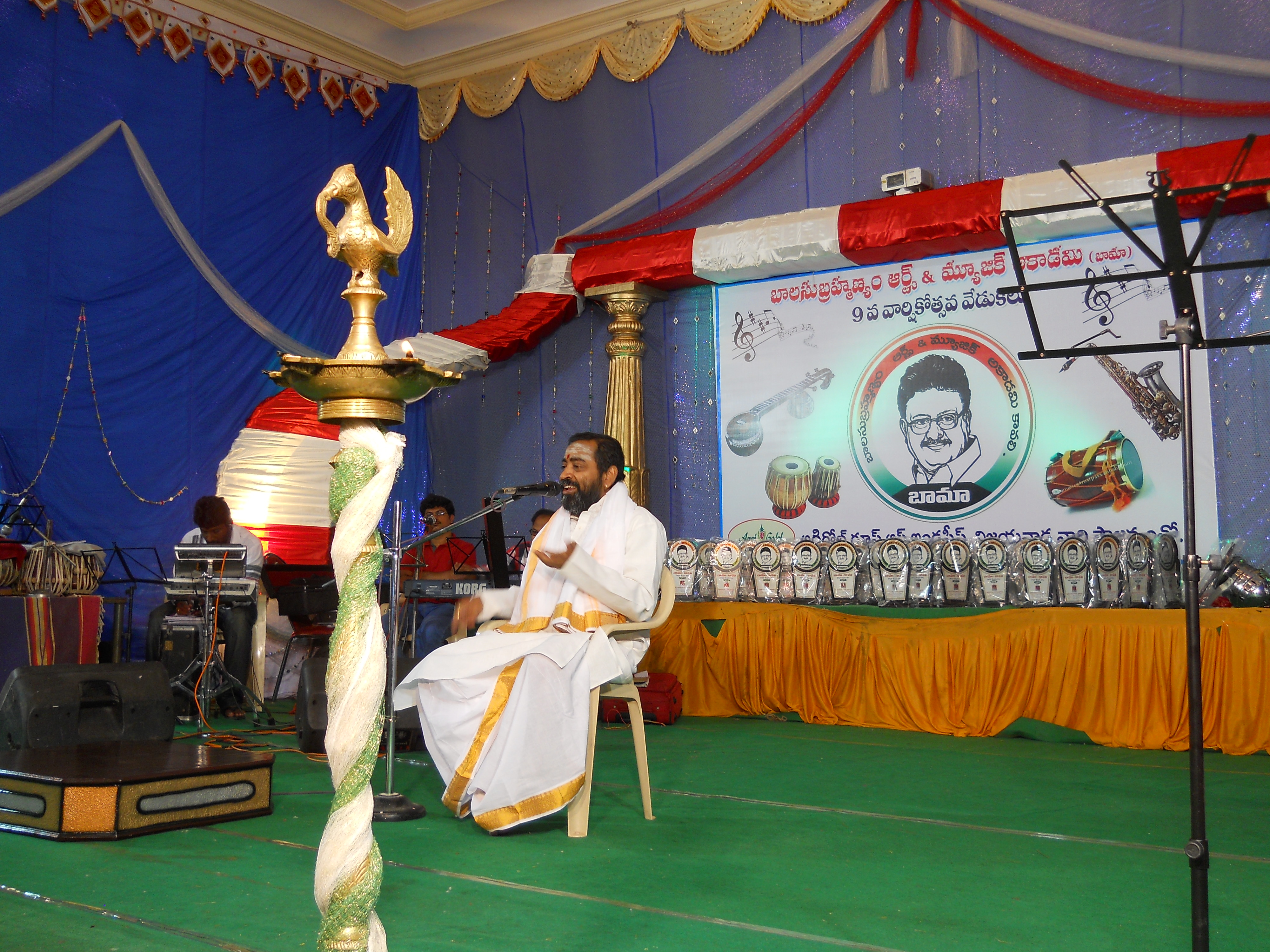 Special Guest Brahmasri Samavedam Shanmukha Sarma at Balasubramanyam Arts and Music Acadamy Telugu Songs Competations (16-9-2012) (YS)